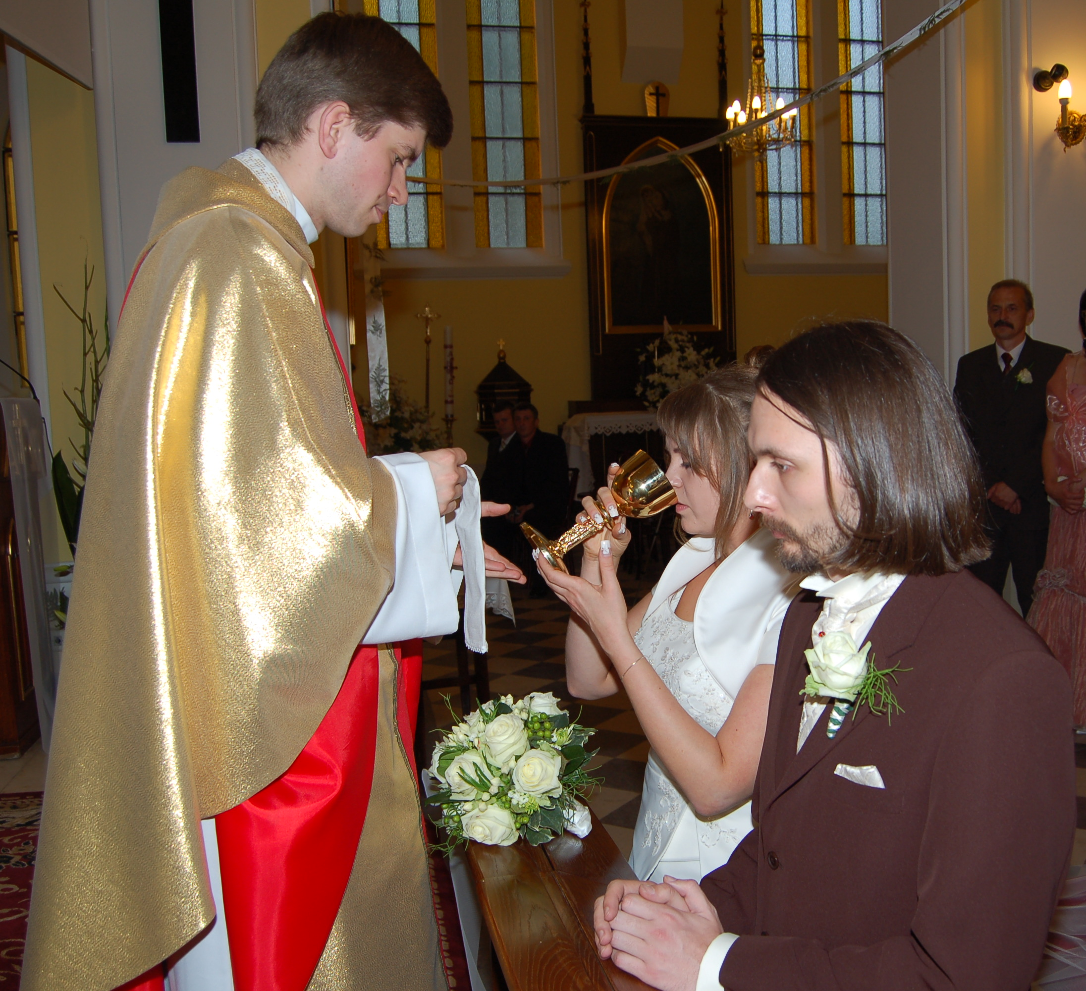 Ejdzej and Iric wedding photo